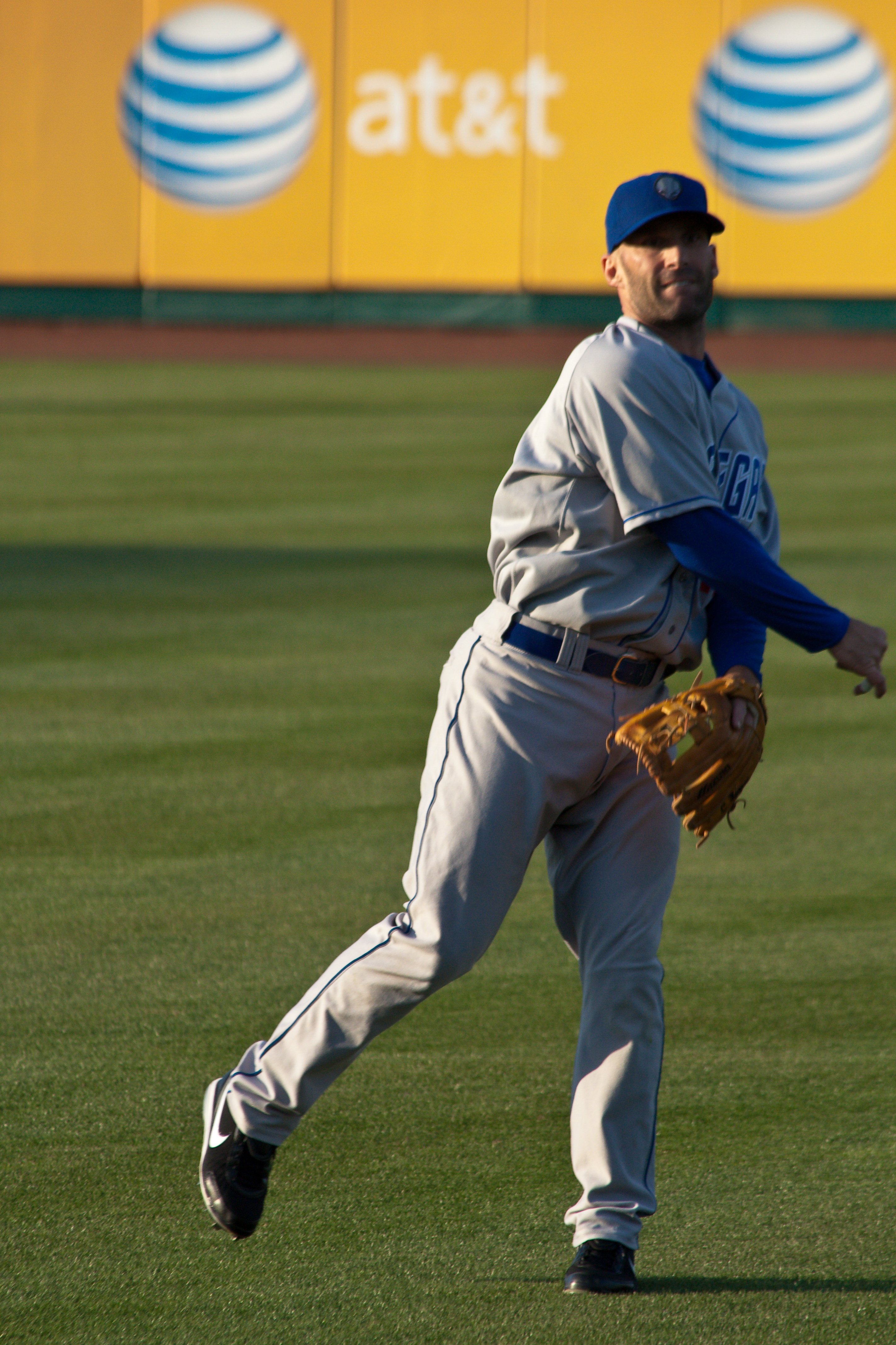 Description Howie Clark of the Las Vegas 51s, warming up at Raley Field Date25 April 2009SourceOwn workAuthorFabrictramp / talk to mePermission (Reusing this file) I own the copyright 15:46, 30 April 2009 . . Fabrictramp . . 2,848×4,272 (10.17 MB) Howie Clark of the Las Vegas 51s, warming up at Raley Field